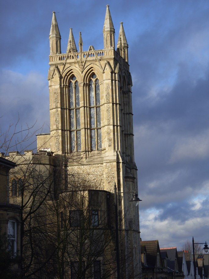 Upper stages of the tower of the former Christ Church parish church, Highland Road, Gipsy Hill, London SE19